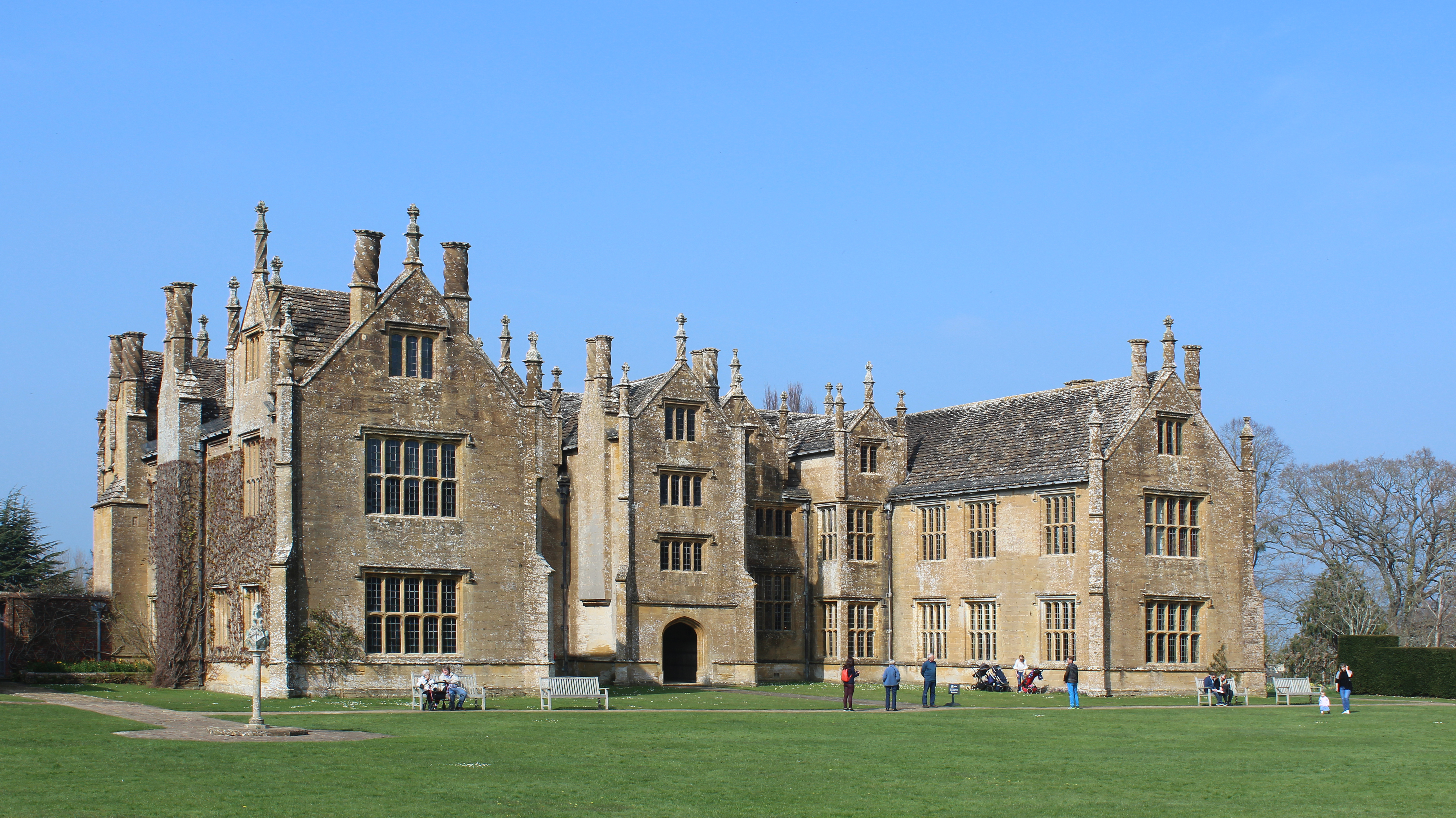 South facade of Barrington Court, a Grade I listed Tudor style stately home in Somerset. Building commissioned in 1514 by Henry Daubeney, completed by 1558 for William Clifton, now owned by the National Trust.